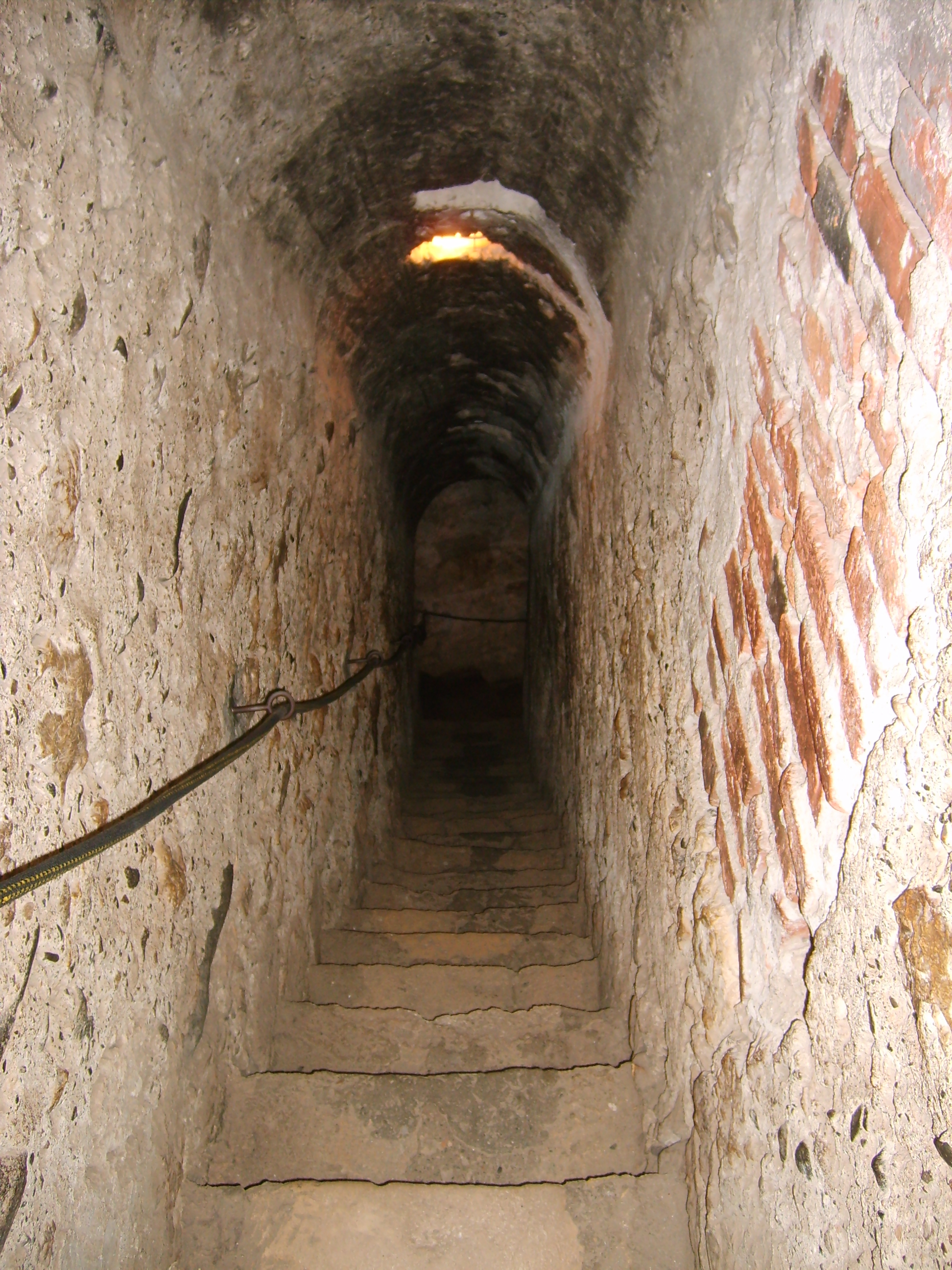 This is a secret passage in the Bran Castle (aka Dracula's castle) connecting the first to the third floor. It was discovered while restoring the castle. It's very narrow and steep.